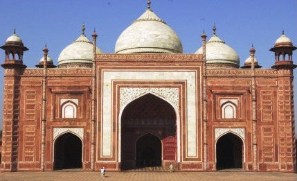 photographs courtesy Philip Greenspun